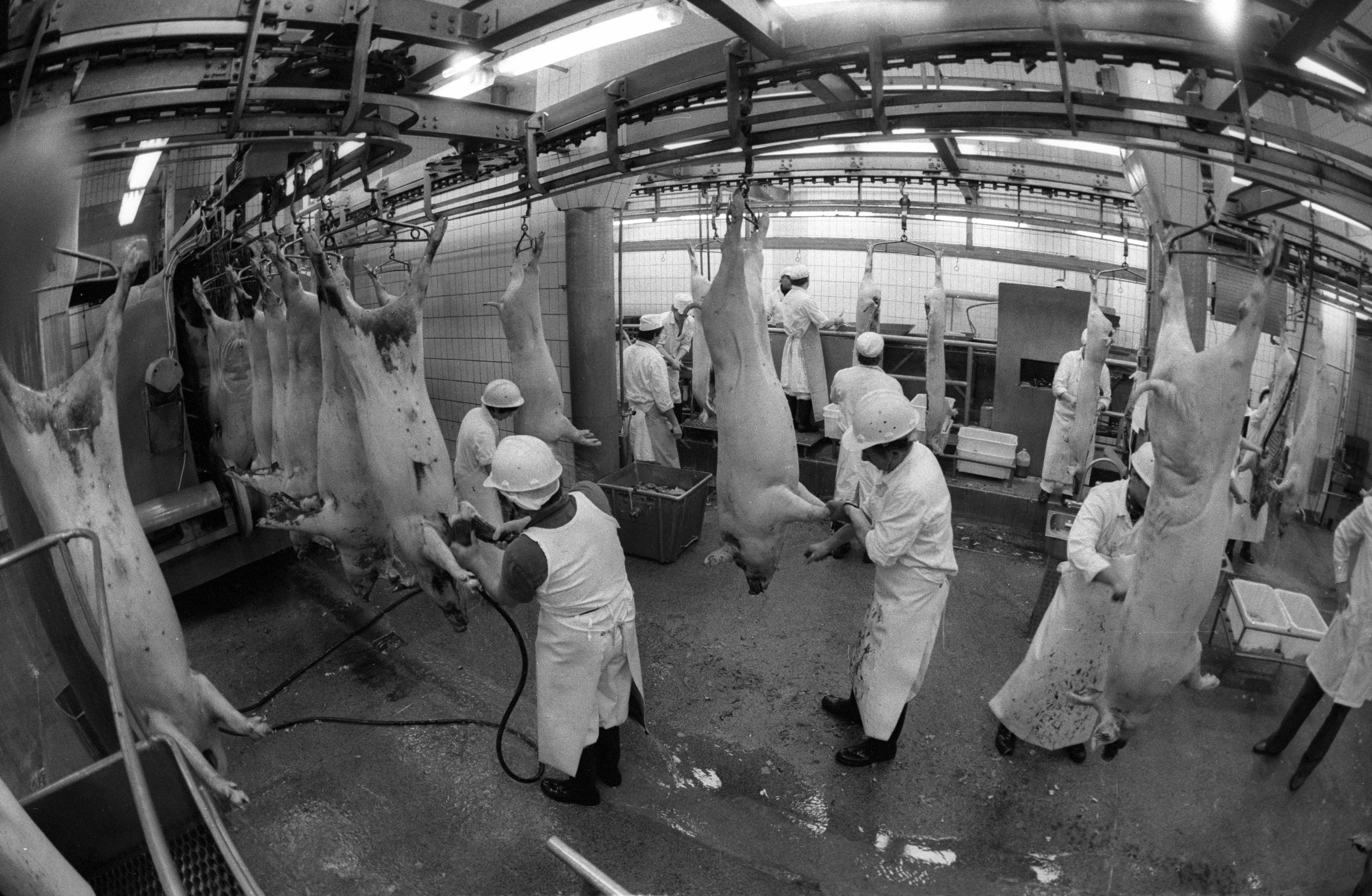 Tags: pig, meat industry, slaughterhouse